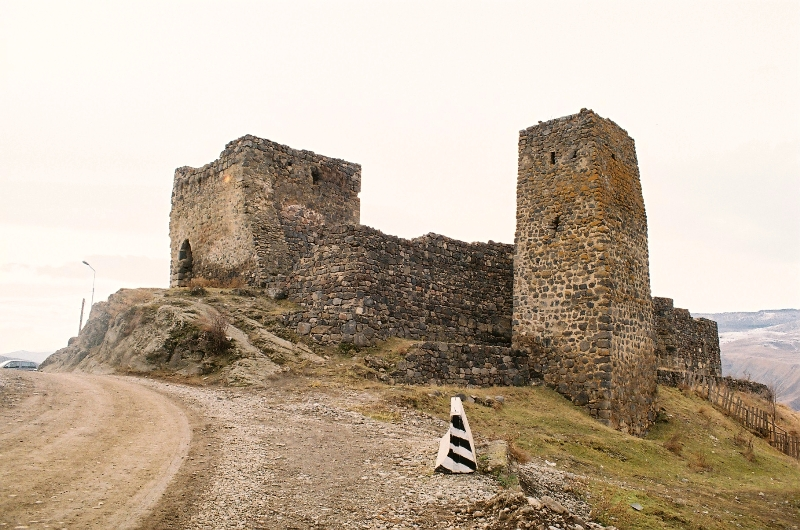 Aspindza fortress. View from NO.